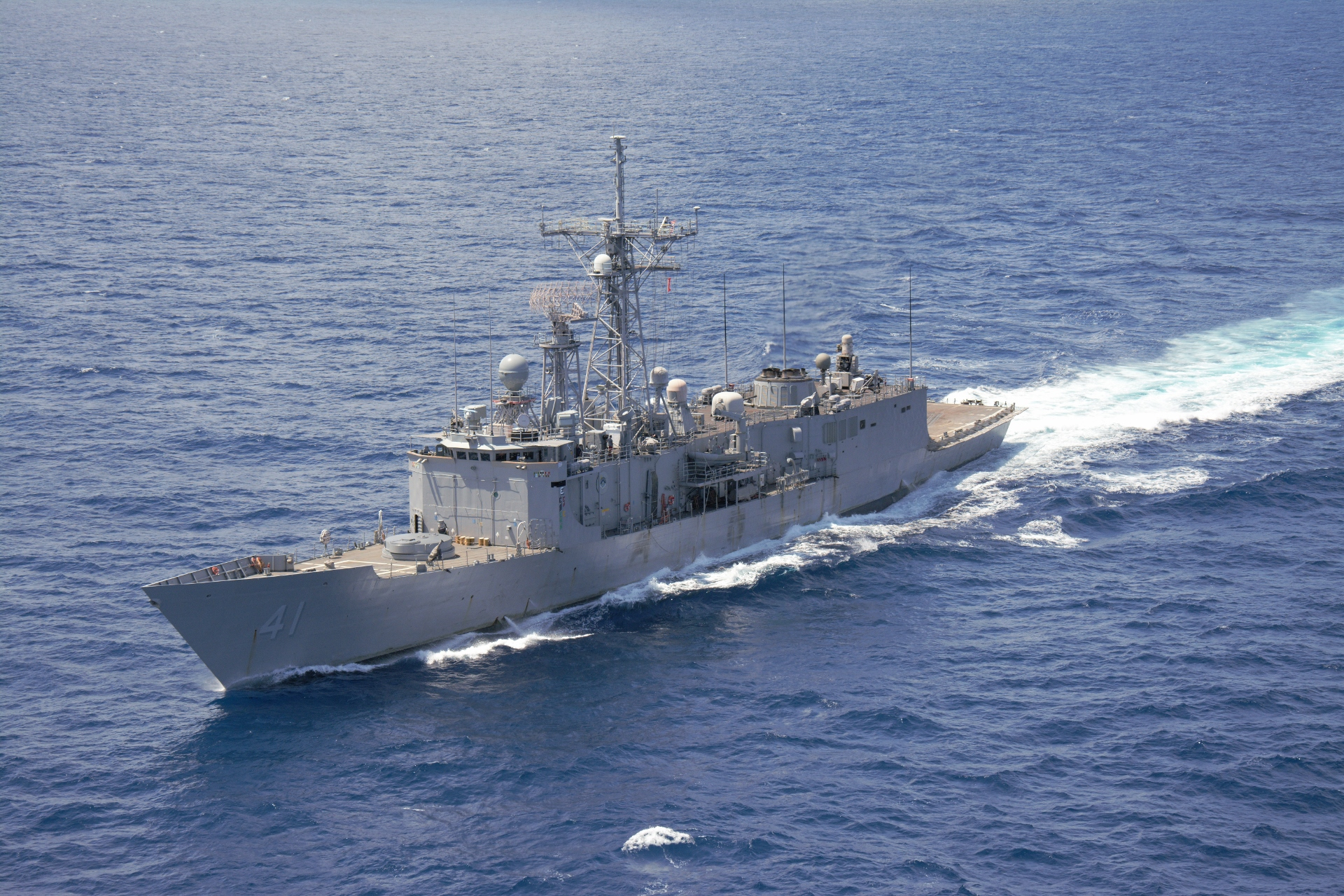 The U.S. Navy frigate USS McClusky (FFG-41) underway during "Operation Martillo" in the U.S. 4th Fleet area of responsibility in the Pacific Ocean. The exercise is a U.S., European, and Western Hemisphere partner nation effort launched in January 2012 targeting illicit trafficking routes in coastal waters along the Central American isthmus.